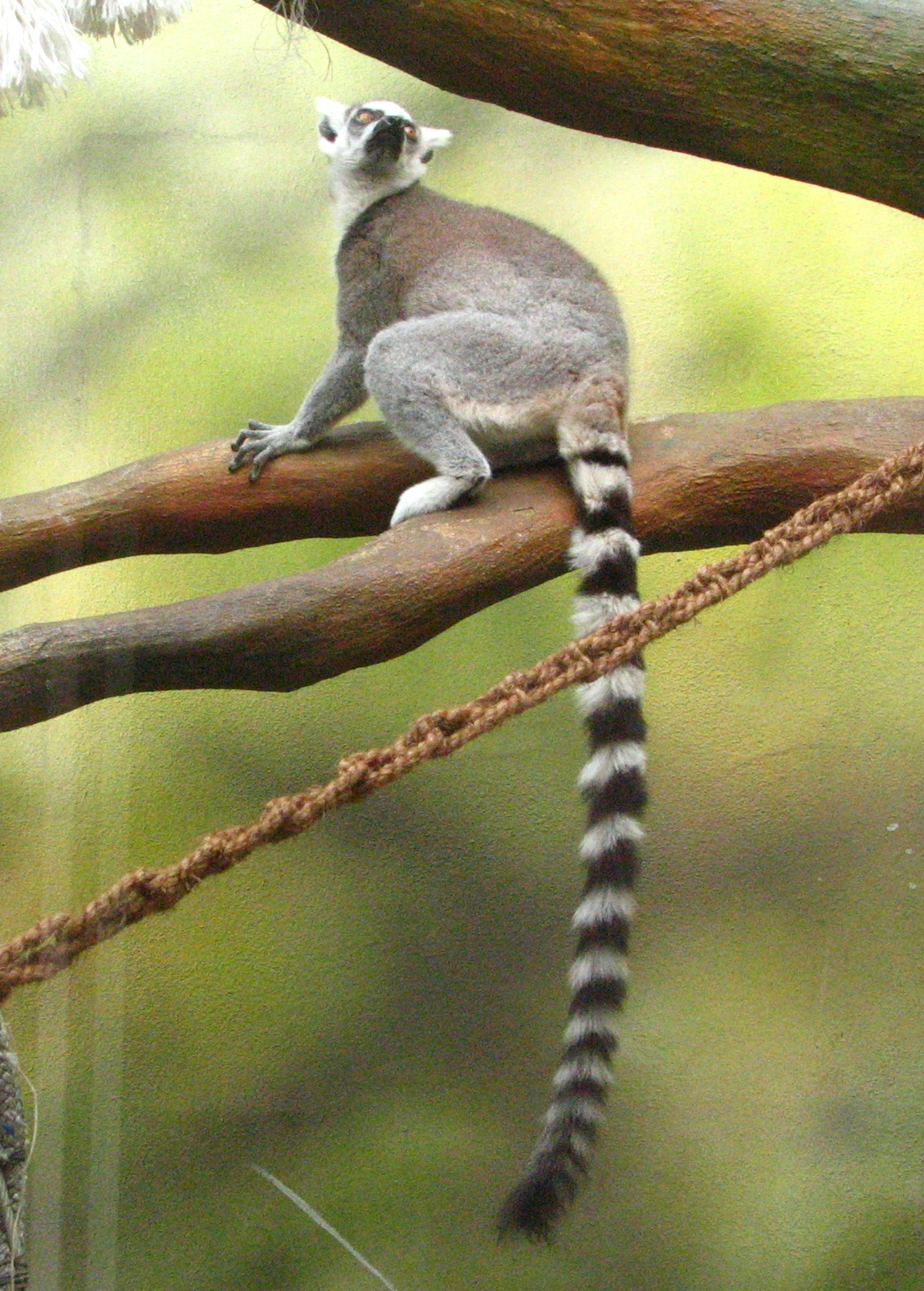 Ring-tailed Lemur in ZOO Dvůr Králové, Czech Republic